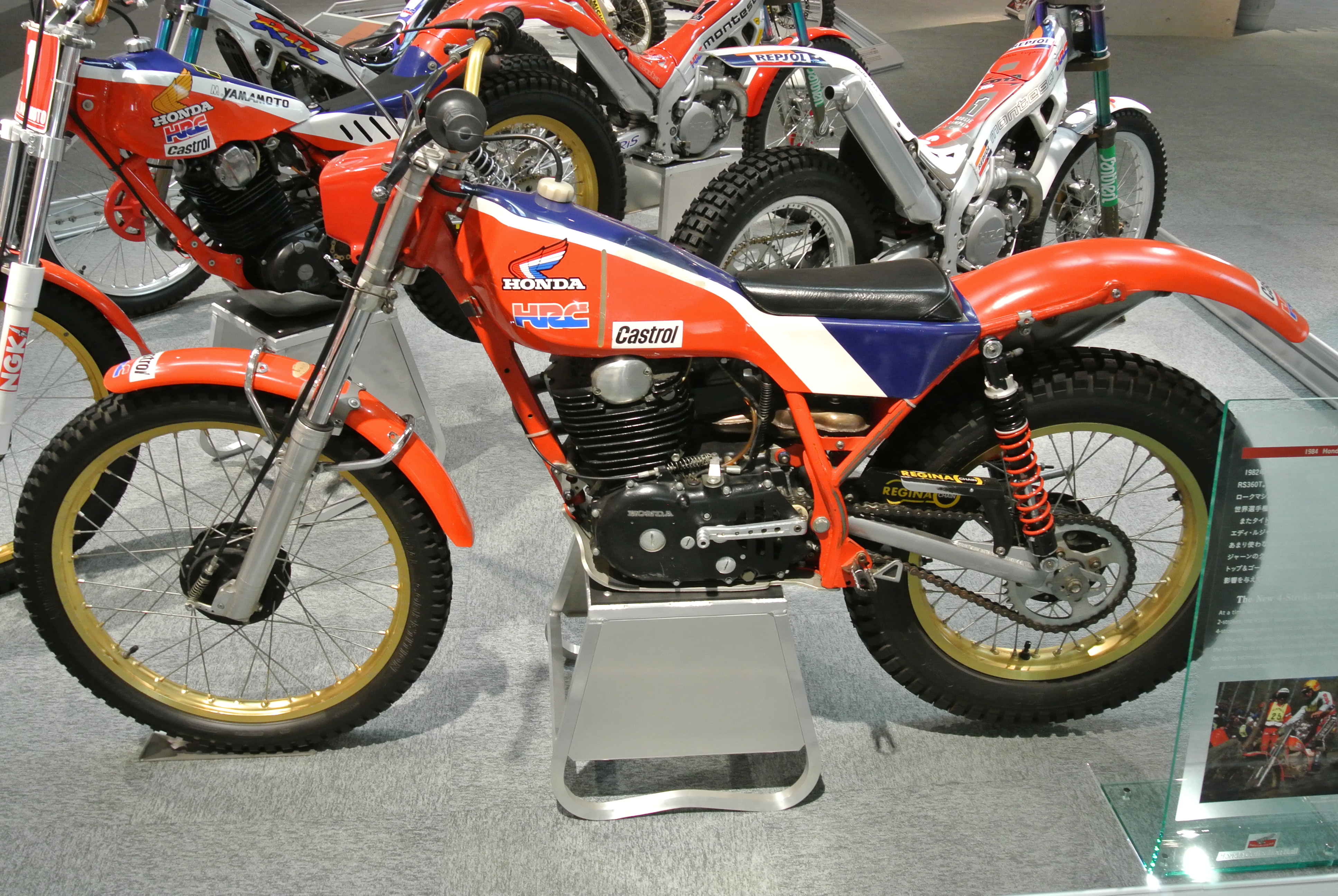 Honda Trial Motorcycles in the honda collection hall.